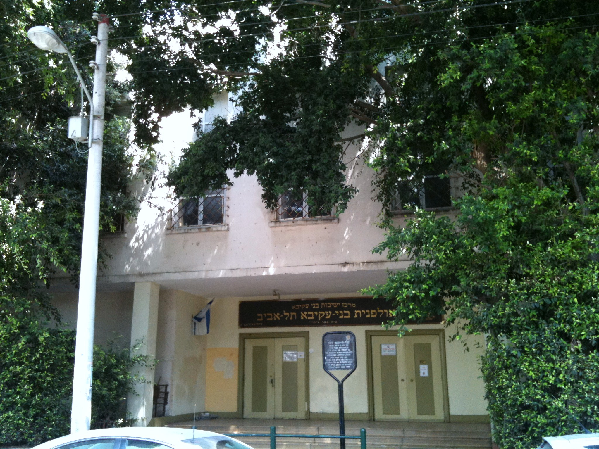 Ulpanit Bnei Akiva, Tel aviv school on lilenblum st.